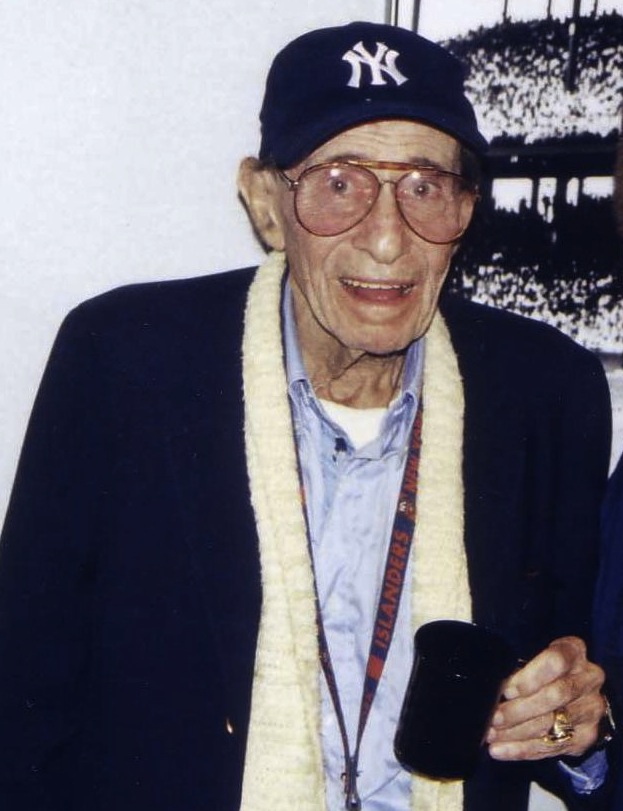 Former Yankee Stadium organist Eddie Layton at his retirement party.